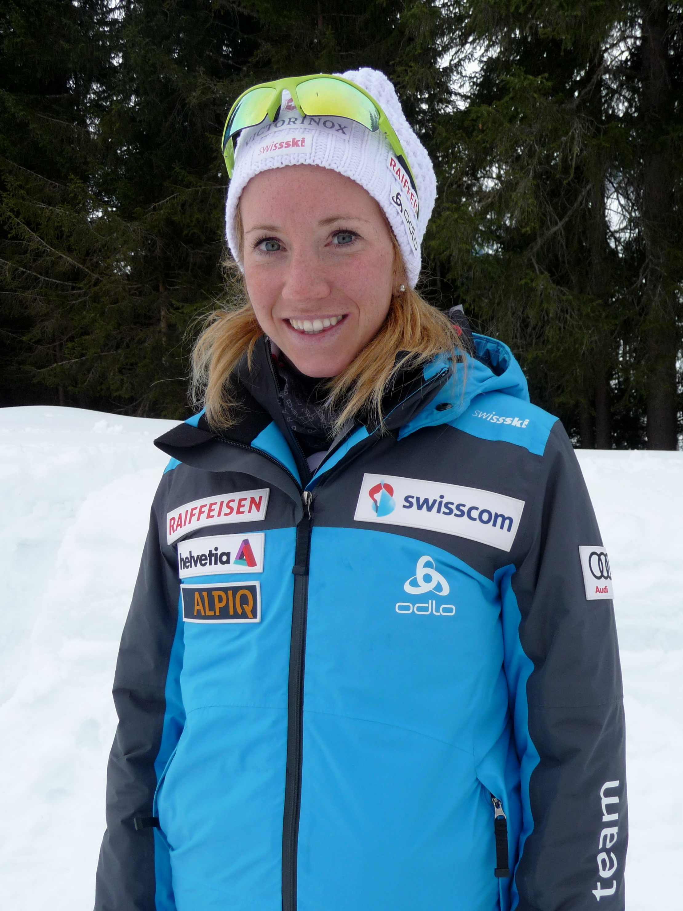 Swiss biathlete Elisa Gasparin at National Championships in Biathlon 2013 in La Lécherette, Switzerland